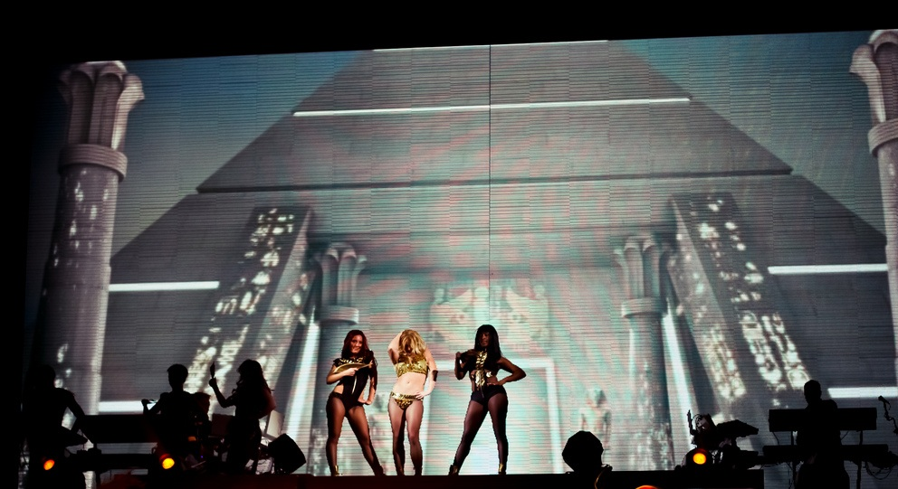 Britney Spears performing "Gimme More" at 2011's Femme Fatale Tour live in Ukraine.